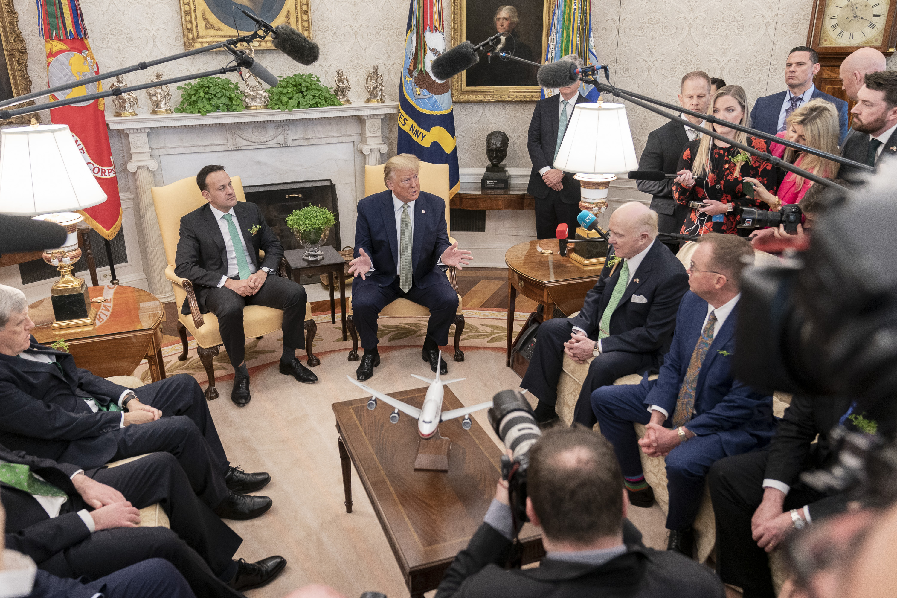 President Donald j. Trump and Irish Prime Minister Leo Varadkar meet with reporters Thursday, March 12, 2020, in the Oval Office of the White House. (Official White House Photo by Shealah Craighead)